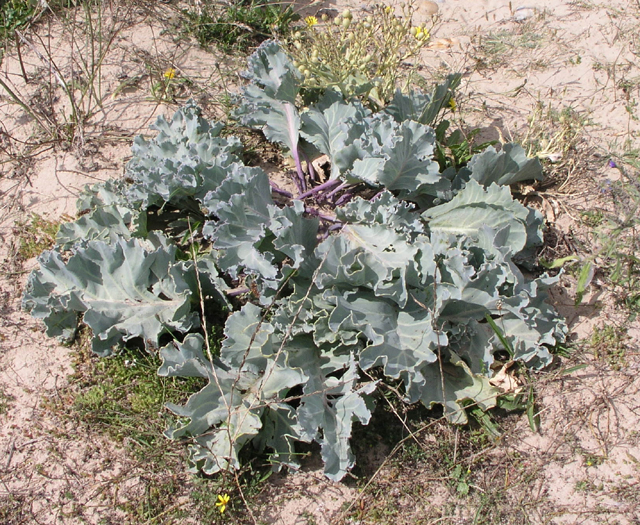 Sea Kale, Romney Sands.